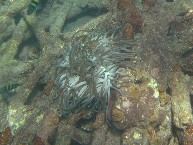 Sea anemone (Condylactis gigantea), Caribbean Sea under the old pier in Esperanza, Vieques, Puerto Rico